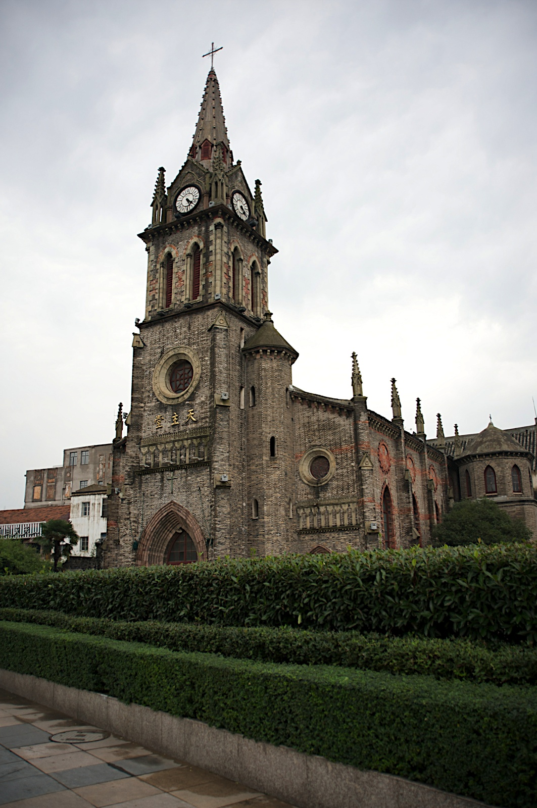 Jiangbei Church, Ningbo, Chine.